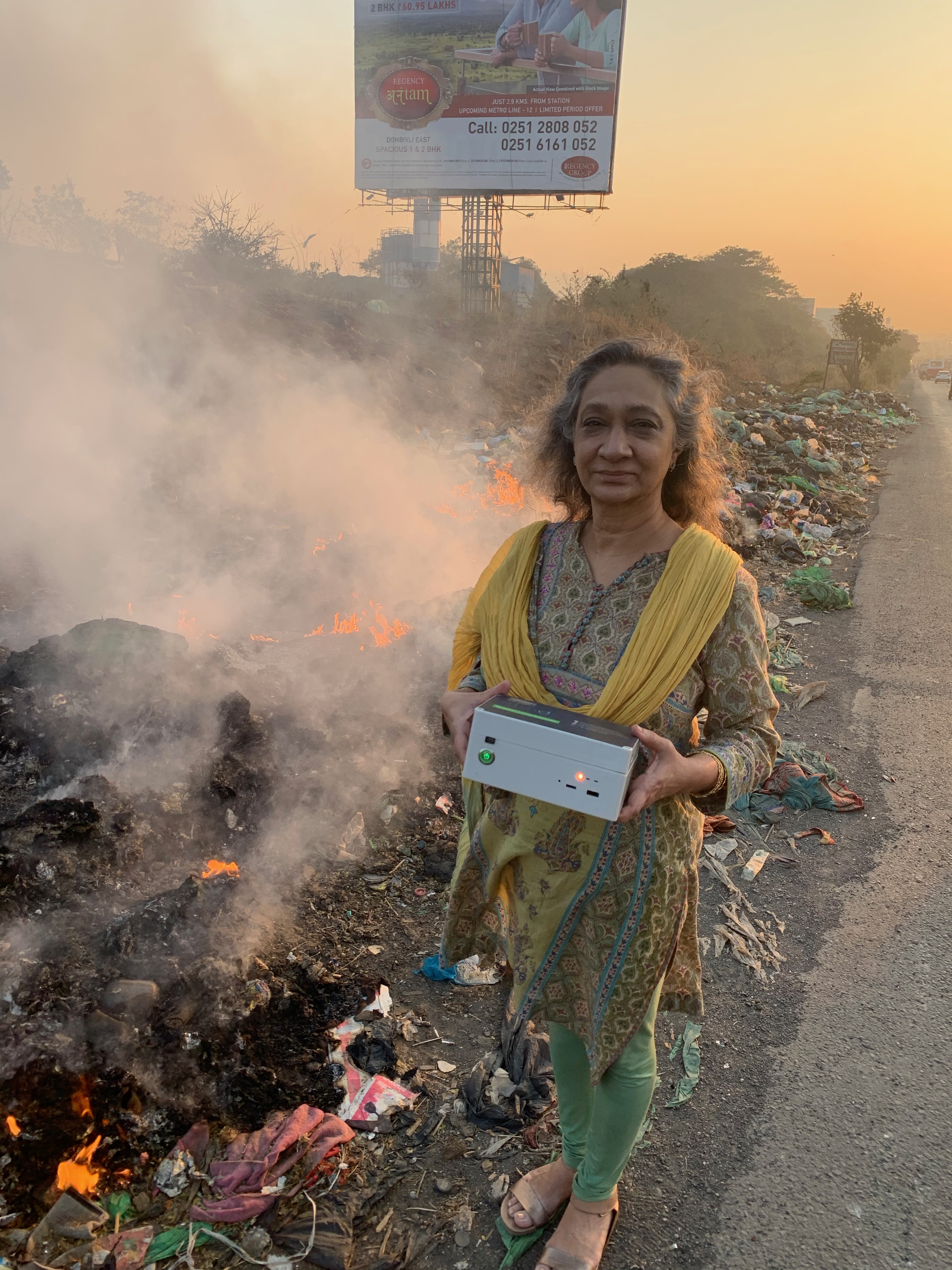 The maximum level of PM2.5, breathable particulate matter contained in air pollution measured at a roadside garbage dump along a main road at Bhiwandi near Mumbai in January 2020. The maximum level recorded was 612n/m3